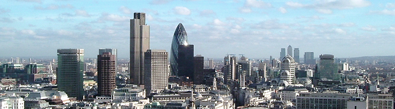 Own image